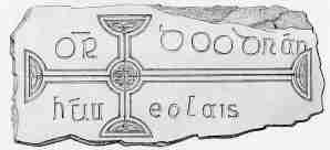 Inscription on the 10th-century tombstone of Ódhrán of Muintir Eolais